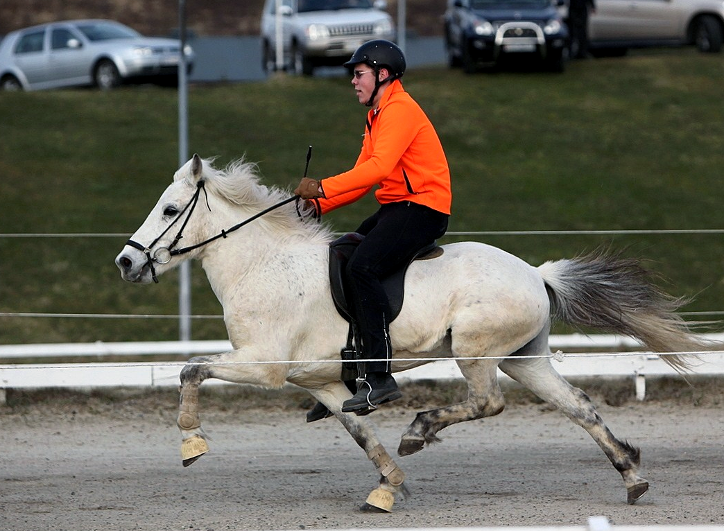 The Icelandic horse Gæðingamót Fáks in 2009 performing the full-speed "flying pace"